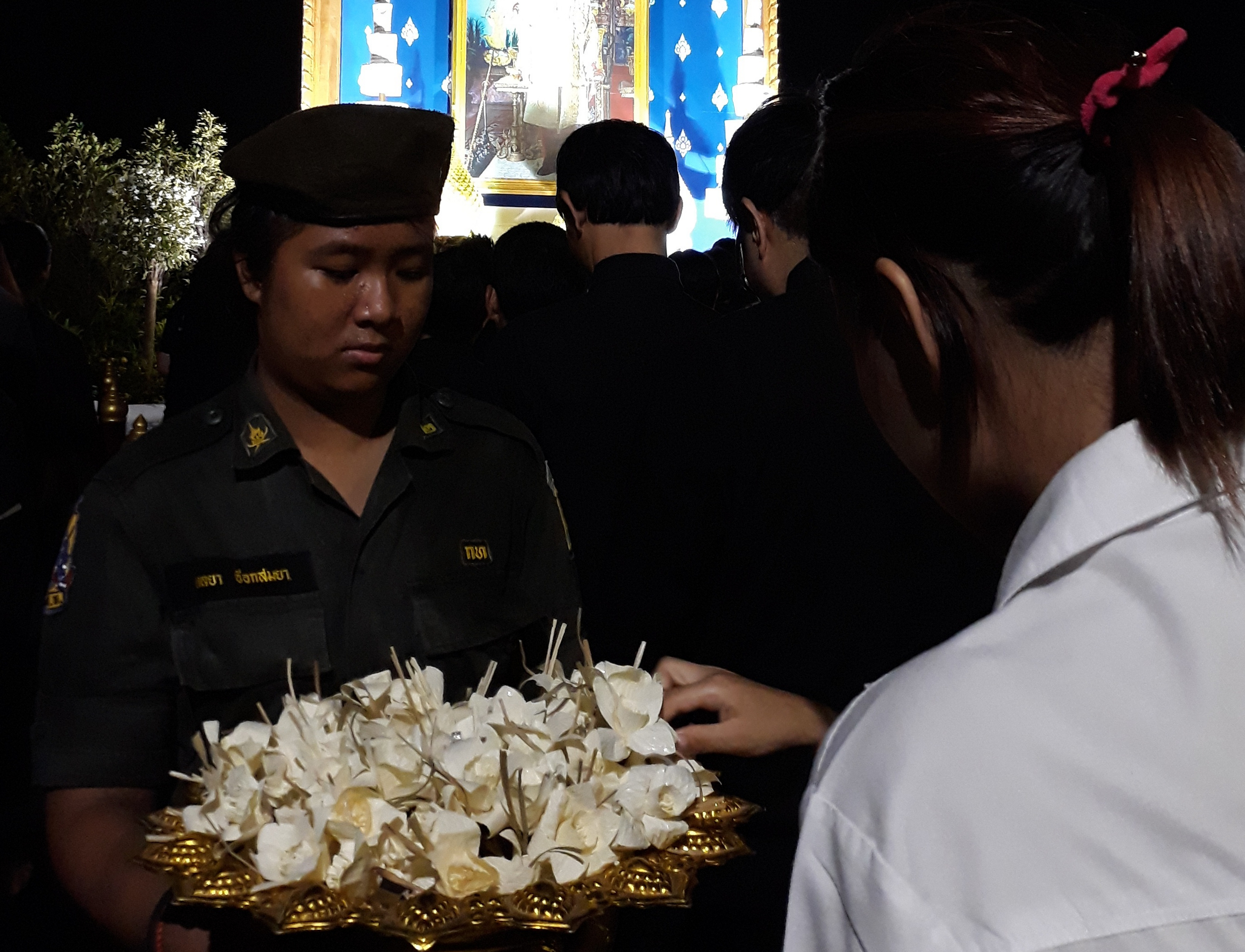 Sandalwood flower offerings for cremation of Bhumibol Adulyadej -CentralPlaza Rama 2 Bangkok 26.10.2017